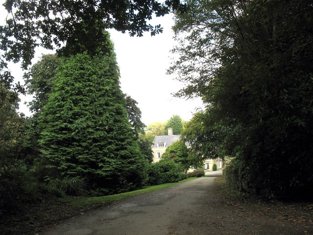 Presaddfed Hall. Presaddfed (originally, Prysaeddfed) is a mansion with a long history. The first lord of Prysaeddfed was the 12th century Hwfa ap Cynddelw, the founder of the 15 noble tribes of Wales and steward to King Owain Gwynedd. In around 1400. the poet Rhisierdyn praised his patron, Hwlcyn ap Hywel of Prysaeddfed, in verse for undertaking the hazardous pilgrimage to Jerusalem. In the 17thC, the Welsh Royalist adventurer Capt. Marcus Trefor, whose exploits in Ireland gained him the titles 1st Viscount Dungannon and Baron Rostrevor married Ann, the heiress of Presaddfed. His name is commemorated both at the nearby hamlet of Trefor SH3780 and also at Rostrevor, Co Down J1818. In the 18th century the estate passed to Sir John Bulkeley, whose family name had been connected with the estate since at least the 15thC. Sir John caused a stir by marrying Ann Owen - one of his maids. After his death, Ann remarried with the fiery Calvinist exhorter John Elias. Ann, the dowager Lady Bulkeley, received the income of the estate whilst its management passed to Margaret Emma, John Bulkeley sister, who had married a Dubliner by the name of James King. Margaret Emma died childless and the estate passed to her husband's natural son, Capt. James King, of the 87th (Royal Irish Fusiliers)Regiment of Foot. In 1873, he was murdered on his doorstep by an Irish vagrant after he reprimanded him for knocking on the front rather than the back door. Being childless King had already bequeathed Presaddfed to the Stanleys, of Penrhos, Holyhead SH2781. In gratitude the Stanleys had a village pump erected at Bodedern in memory of the unfortunate "Faugh". The present house was initially constructed in 1686 and rebuilt in 1821. In recent years the Presaddfed hall and demesne have been operated as a hunting estate and shooting school. 577749